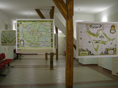 Map exhibition at Department of Geography of J. E. Purkyně's University. 4th floor.